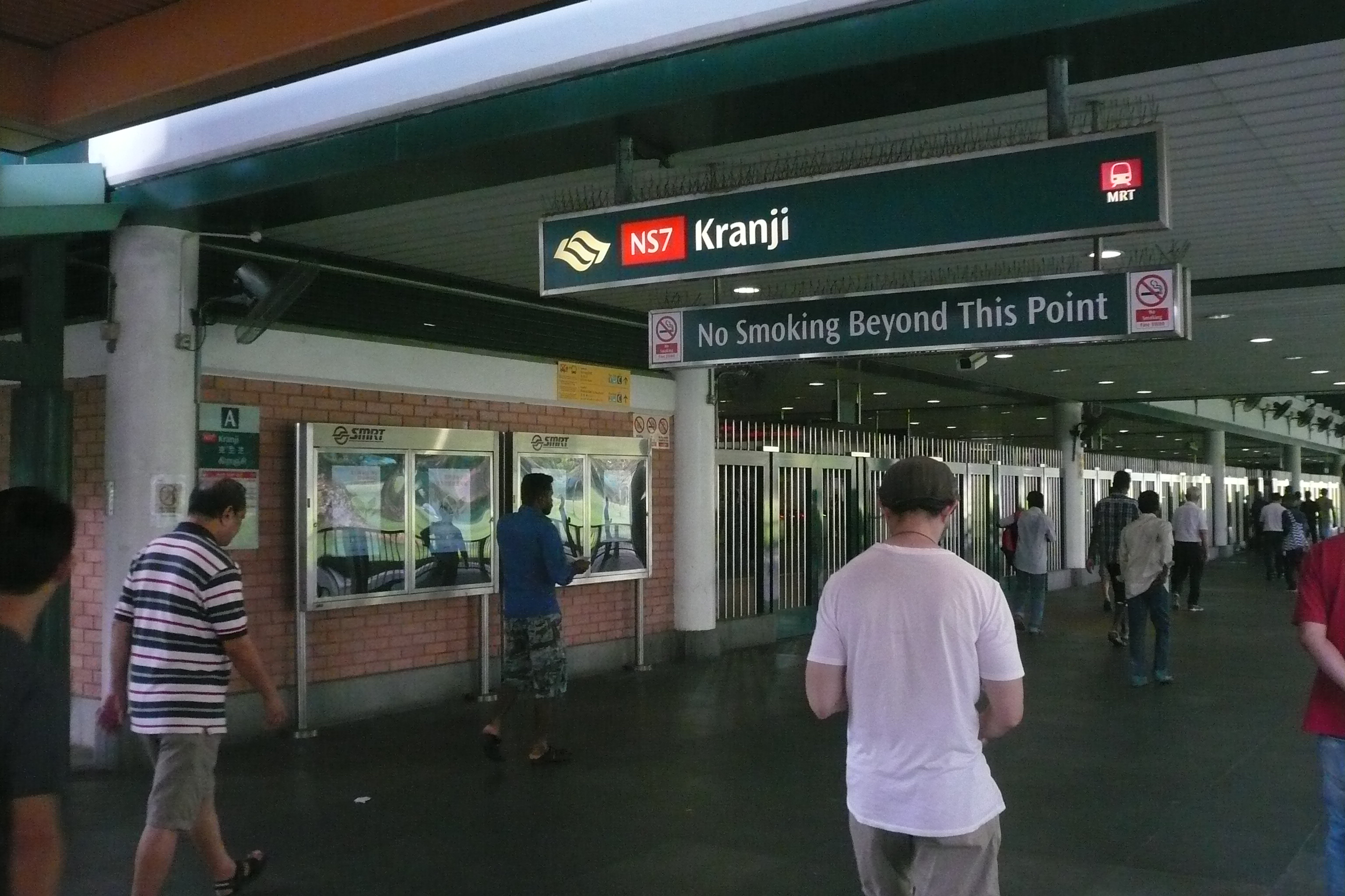 Exit A of Kranji